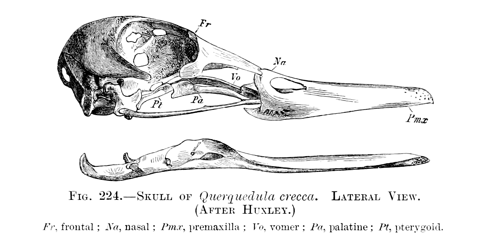 Skull of Anas crecca